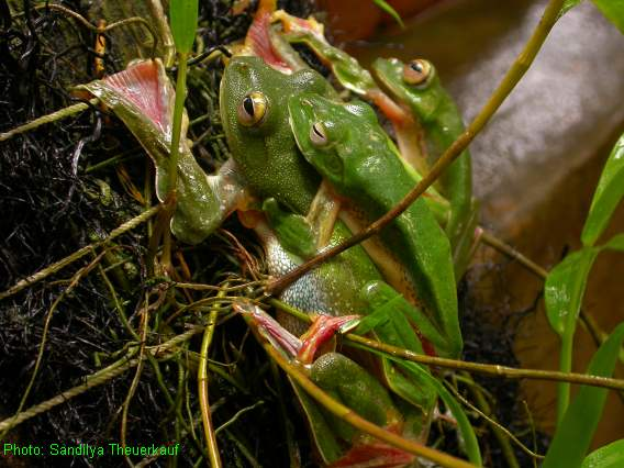 Rhacophorus malabaricus in amplexus Photograph by Sandilya Theuerkauf, Wynaad, 2006